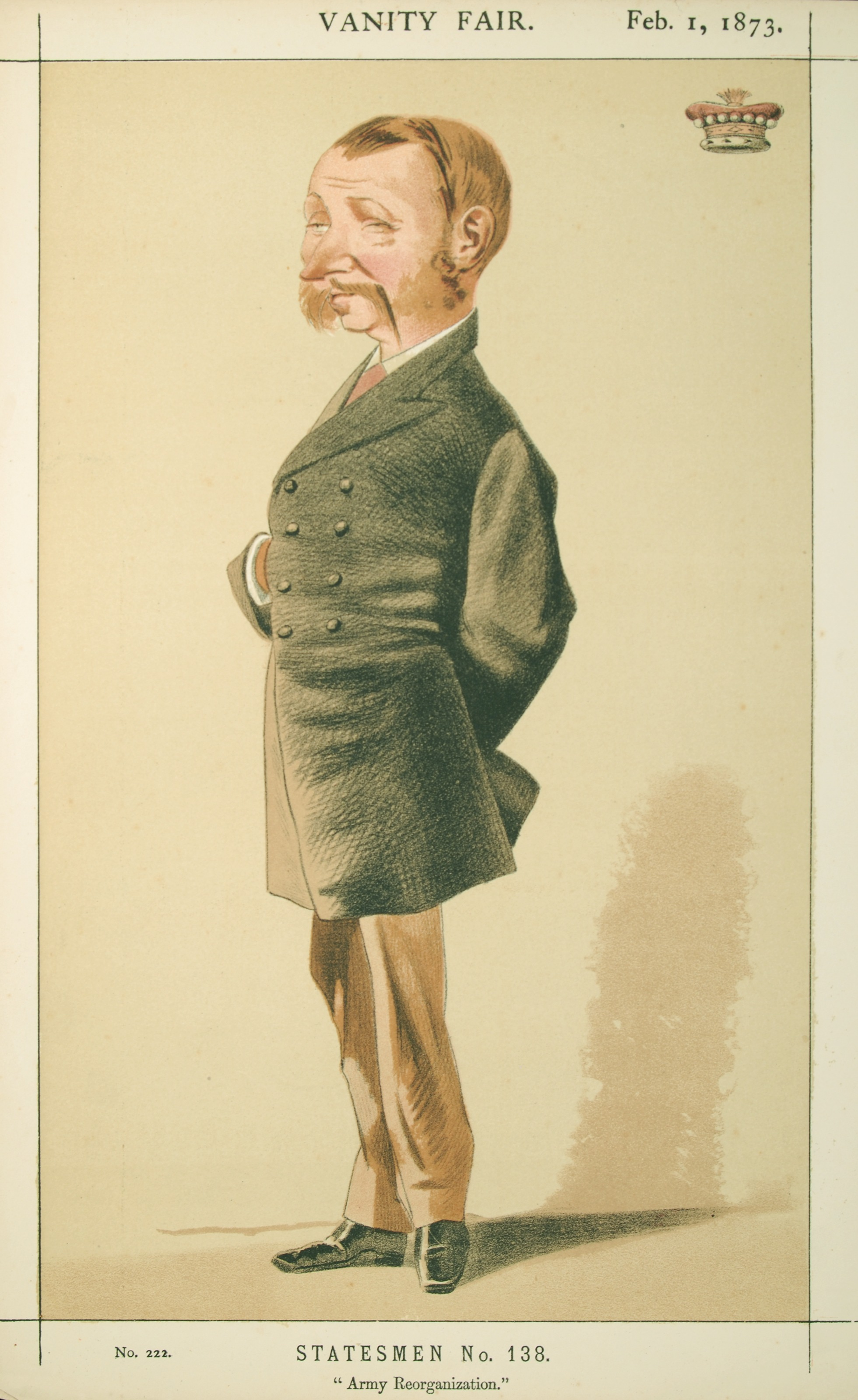 Statesmen No.138: Caricature of Alan Stewart, 10th Earl of Galloway (21 October 1835 – 7 February 1901)). Caption reads: "Army reorganisation"